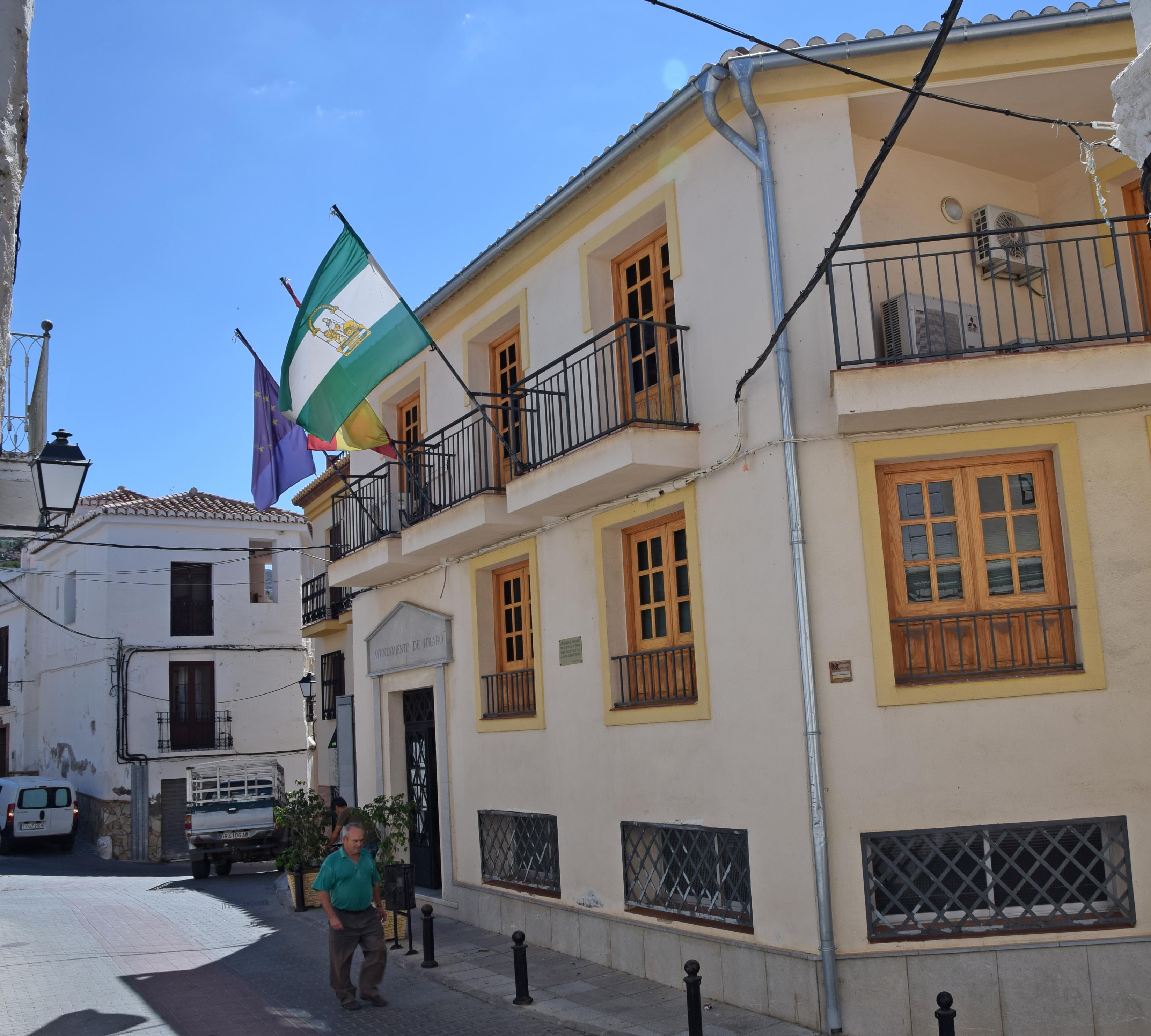 Ítrabo town hall, Doña Carmen, 1